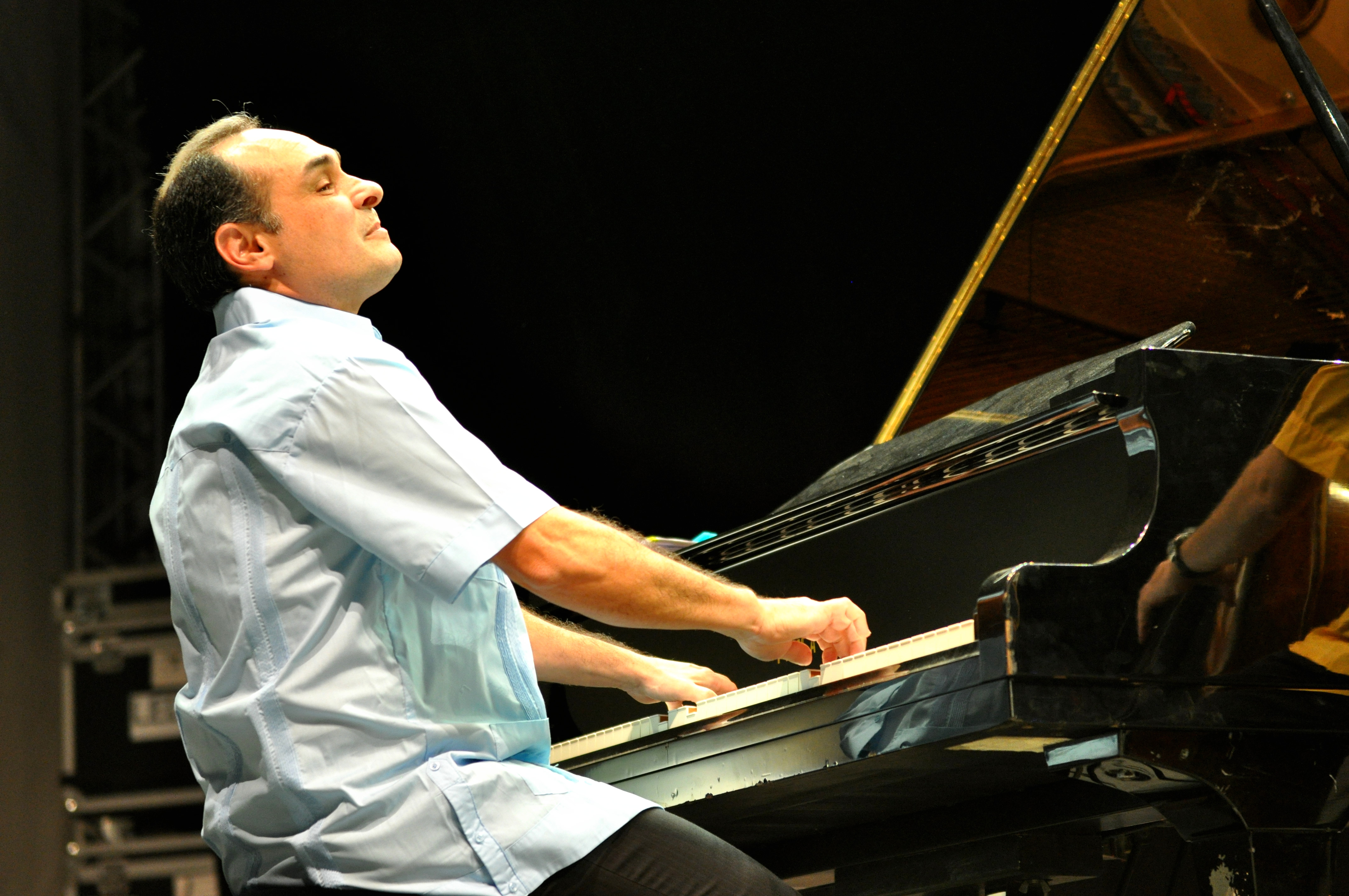 Trio Corrente feat. Paquito D'Rivera (BRA/CUB), World Music Festival Horizonte 2015, Ehrenbreitstein Fortress, Koblenz, Rhineland-Palatinate, Germany Festivalsommer This photo was created with the support of donations to Wikimedia Deutschland in the context of the CPB project "Festival Summer".